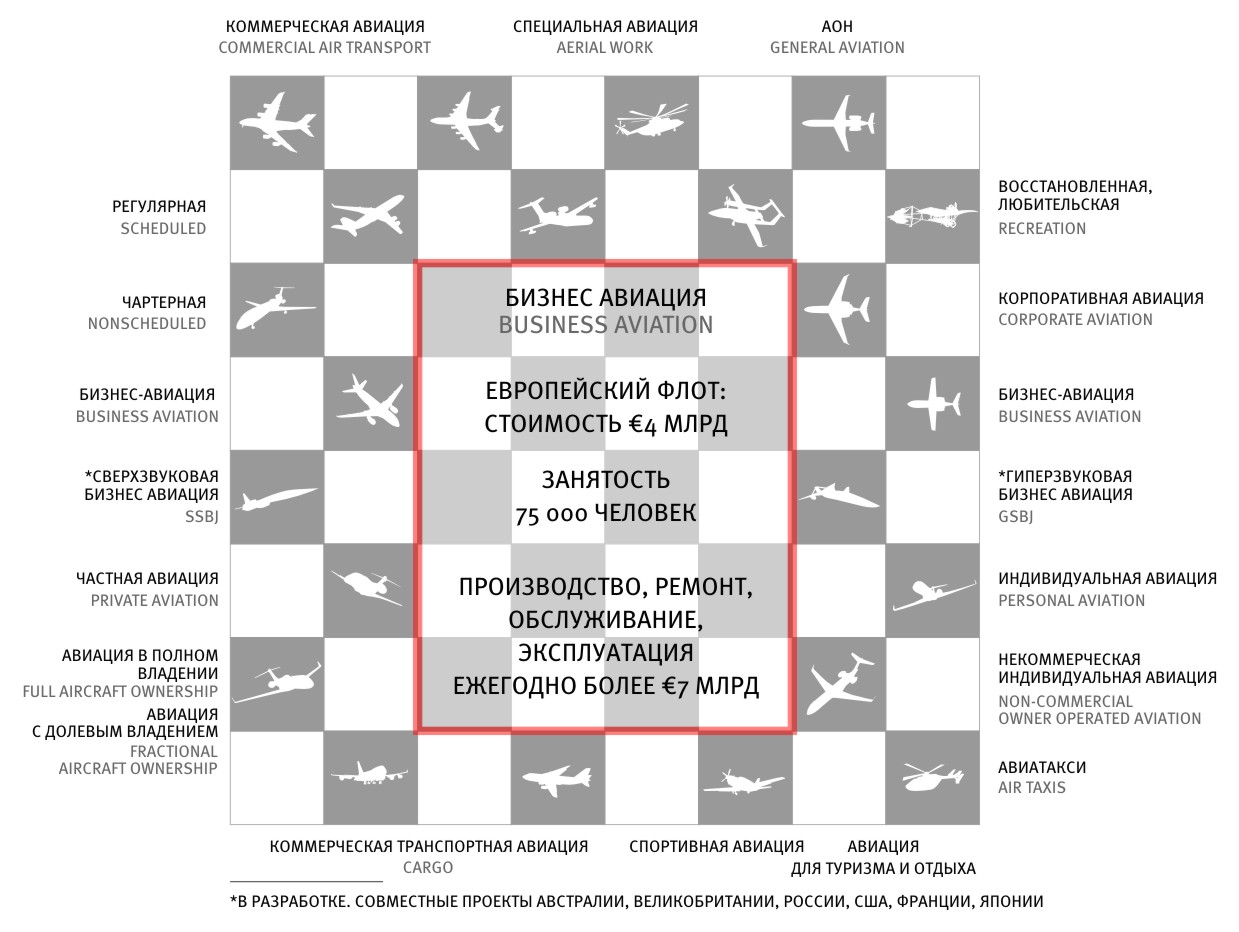 Classification of Civil Aviation, 2008